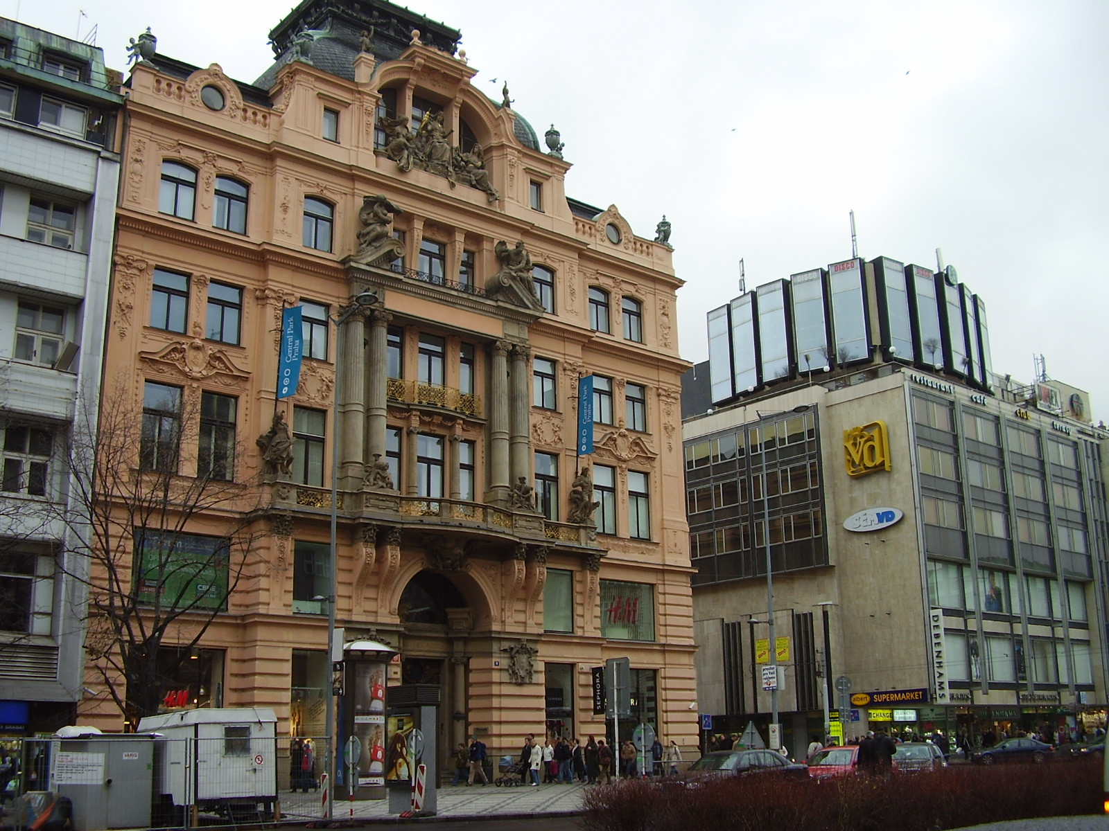 Prague november 2006